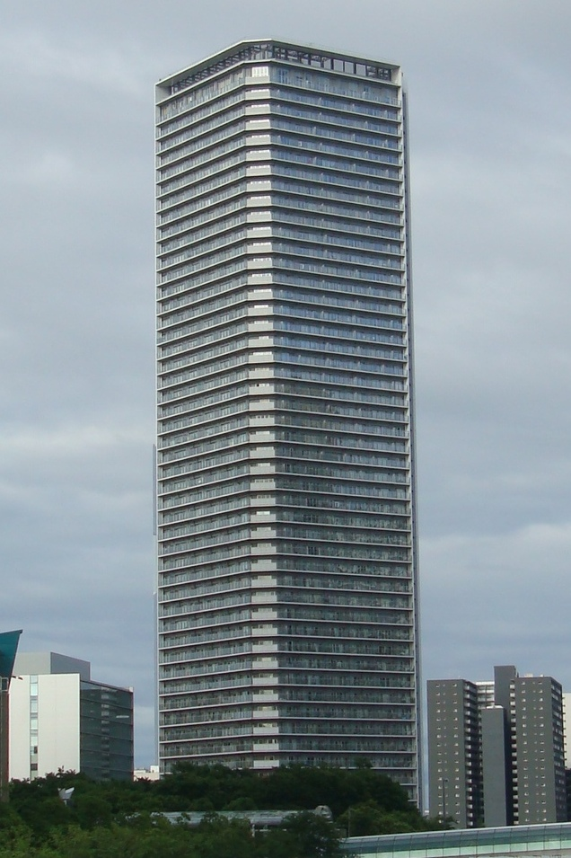 The Bay City Harumi Skylink Tower at Harumi, Chuo city, Tokyo